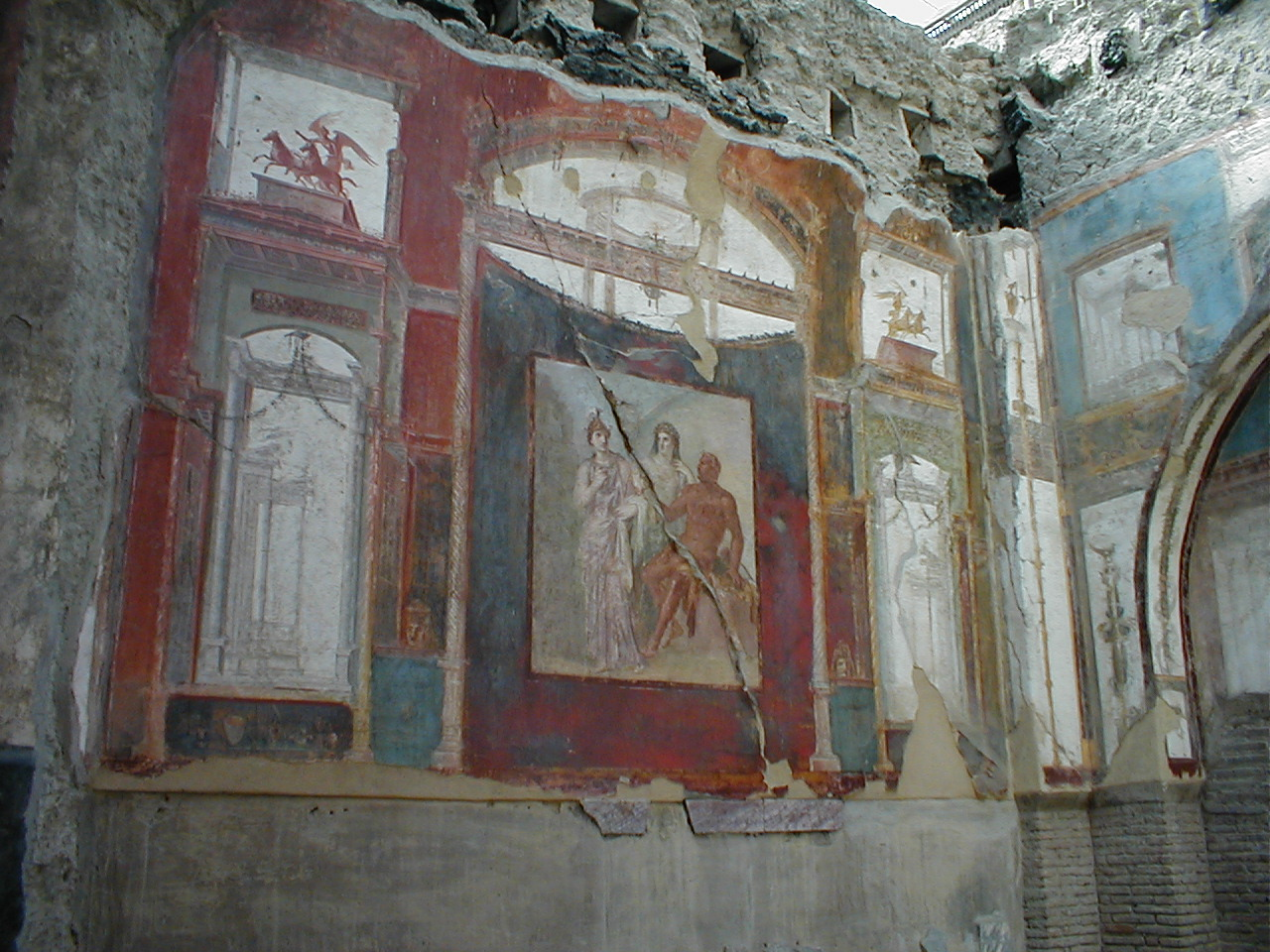 Hall of the Augustals (Herculaneum) - Hercules in Olympus with Juno and Minerva.